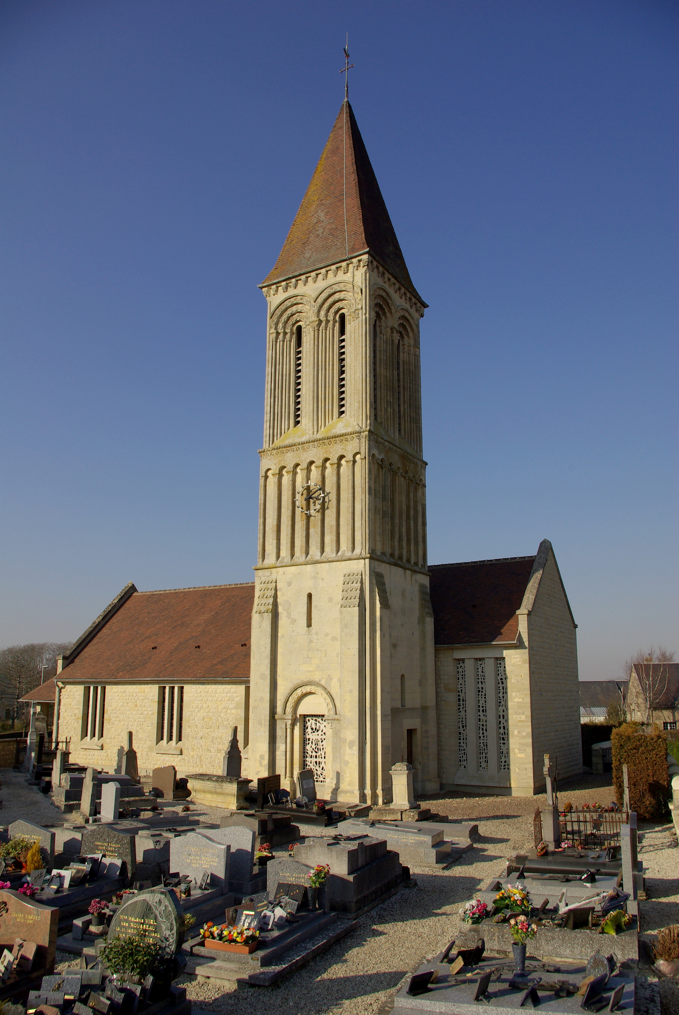 The church Saint Martin